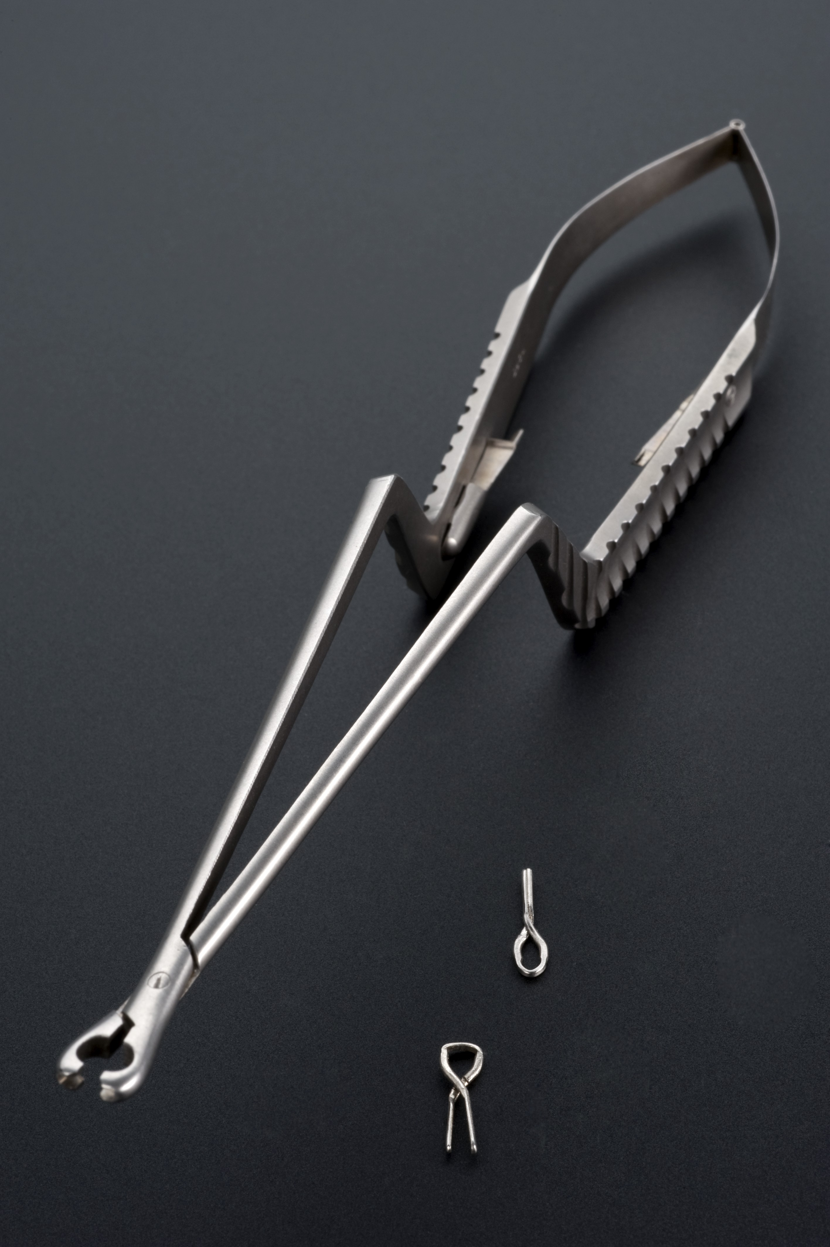 The Yasargil clips are applied using these compression forceps, made by Jetter and Scheerer. Yasargil clips are used during neurosurgery to help treat aneurysms. This is where a blood vessel wall is weakened and begins to swell, a condition that can occur anywhere in the body. Blood vessels can also burst, causing internal bleeding. This is especially dangerous if the burst occurs in the brain. These clips were invented by M Gazi Yasargil (b. 1925), one of the pioneer in applying microsurgery techniques to neurosurgery. They are still made today and are available from most surgical instrument suppliers. The forceps are shown here with two Yasargil clips (A616253). maker: Jetter and Scheerer Place made: Tuttlingen, Freiburg district, Baden-Württemberg, Germany Wellcome Images Keywords: Surgical Instruments; forceps; yasargil clip